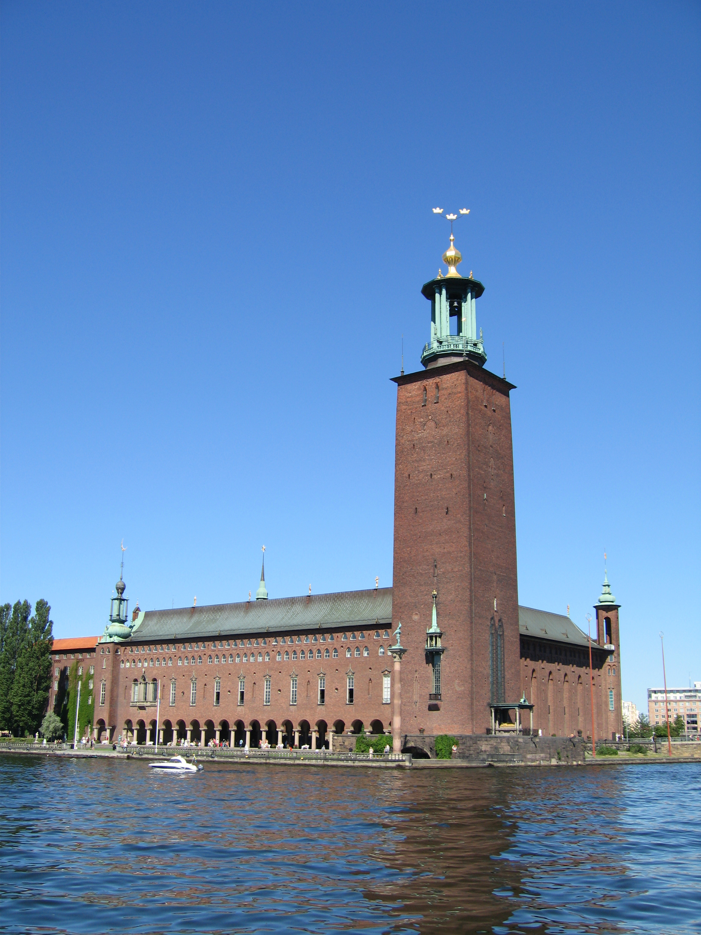 Stockholm City Hall